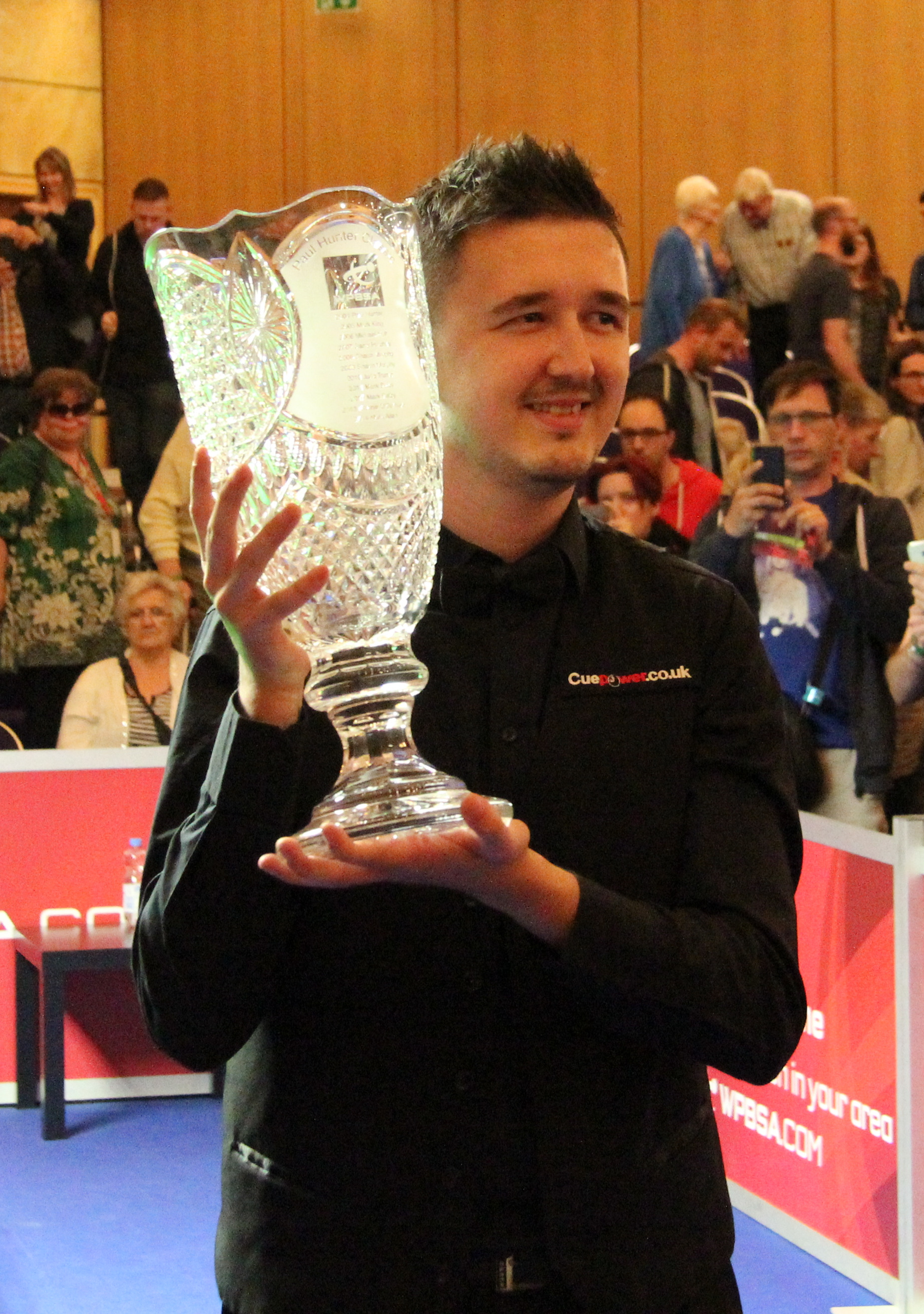 Kyren Wilson at the Paul Hunter Classic 2018